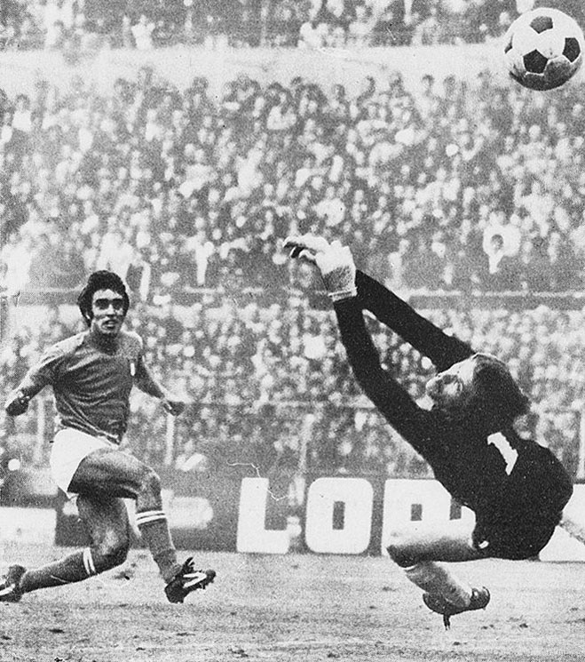 Turin (Italy), Communal Stadium, September 20, 1972. From left to right: Italian forward Pietro Anastasi beats Yugoslavian goalkeeper Enver Marić and scores the final 3-1 for Italy in a friendly match versus Yugoslavia.